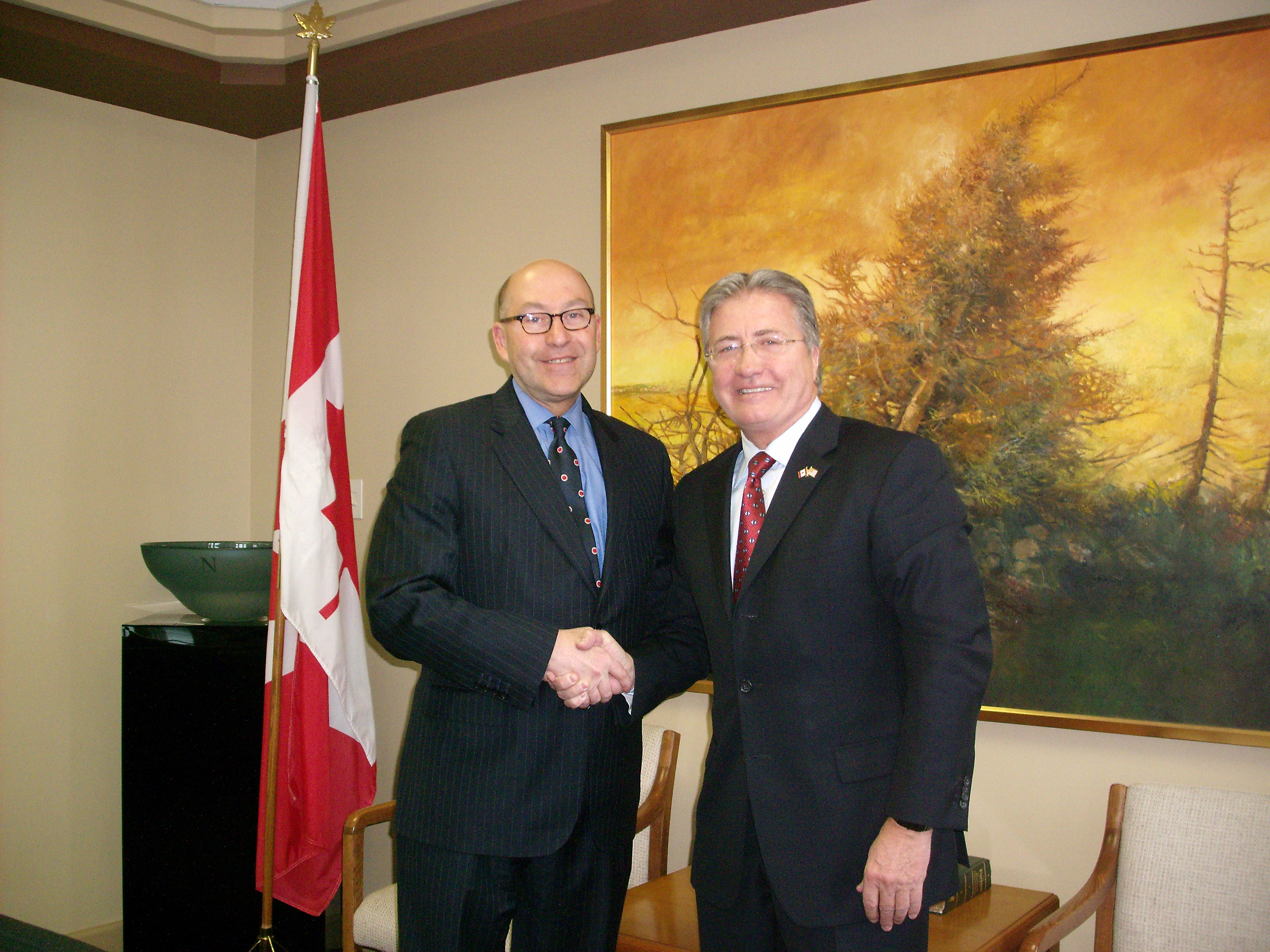 Ambassador Jacobson and Newfoundland Premier Danny Williams